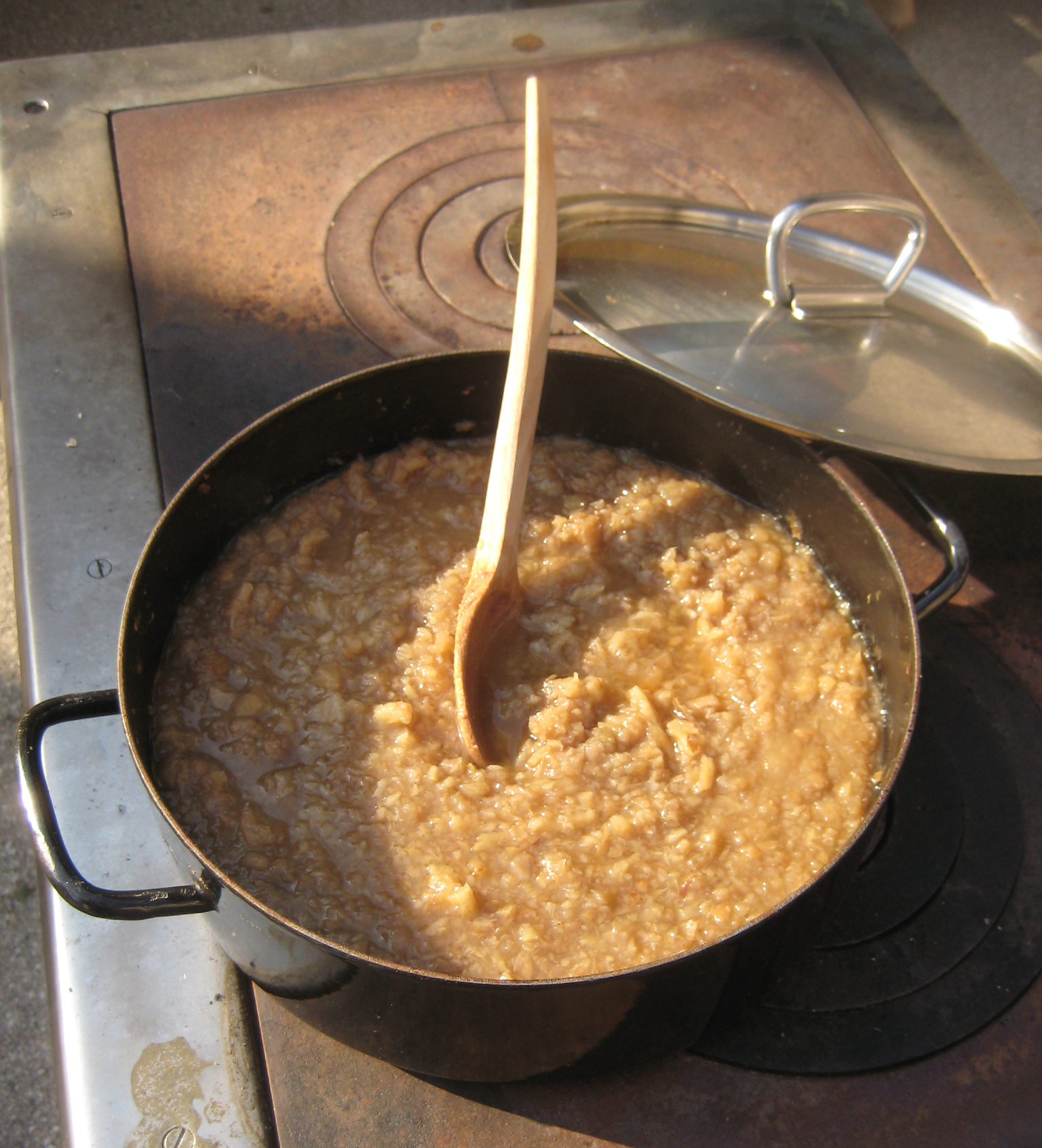 Aleluja, slovenian trad. foodSlovenščina: Aleluja.